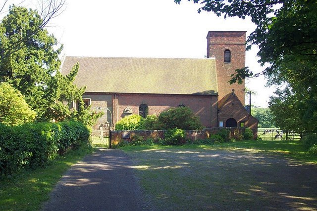 Farewell Church. Dedicated to St. Bartholomew